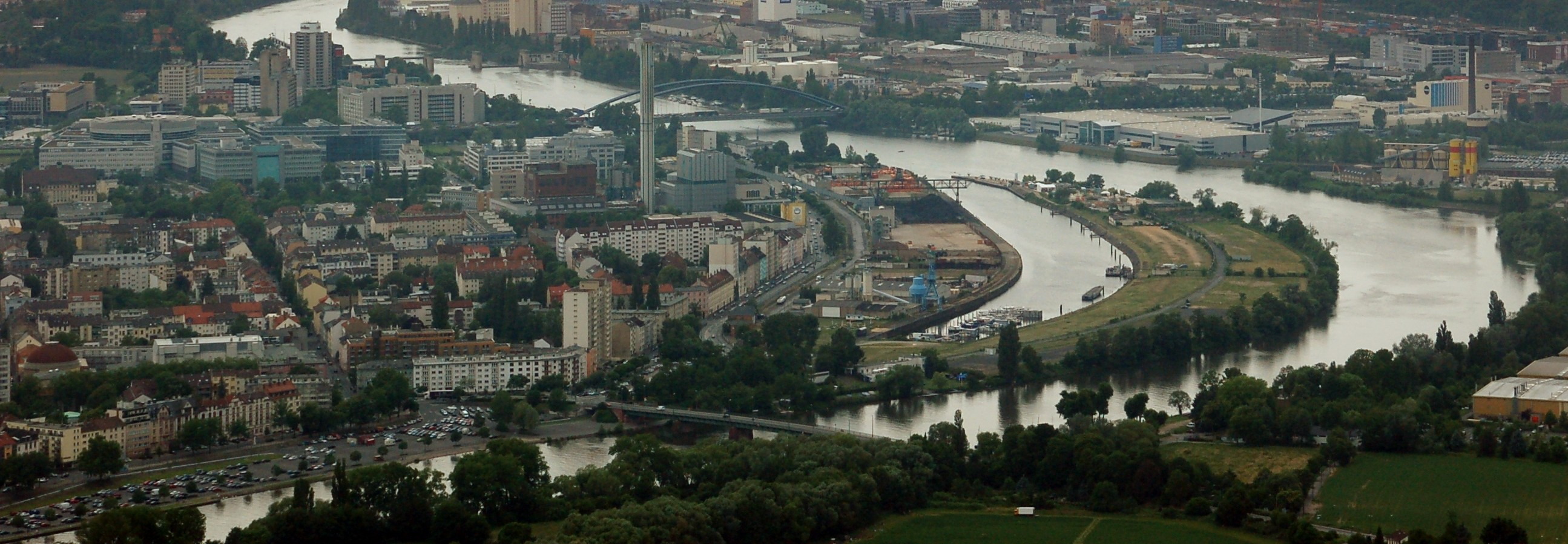 Offenbach am Main with Carl-Ulrich-Brücke and Kaiserleibrücke